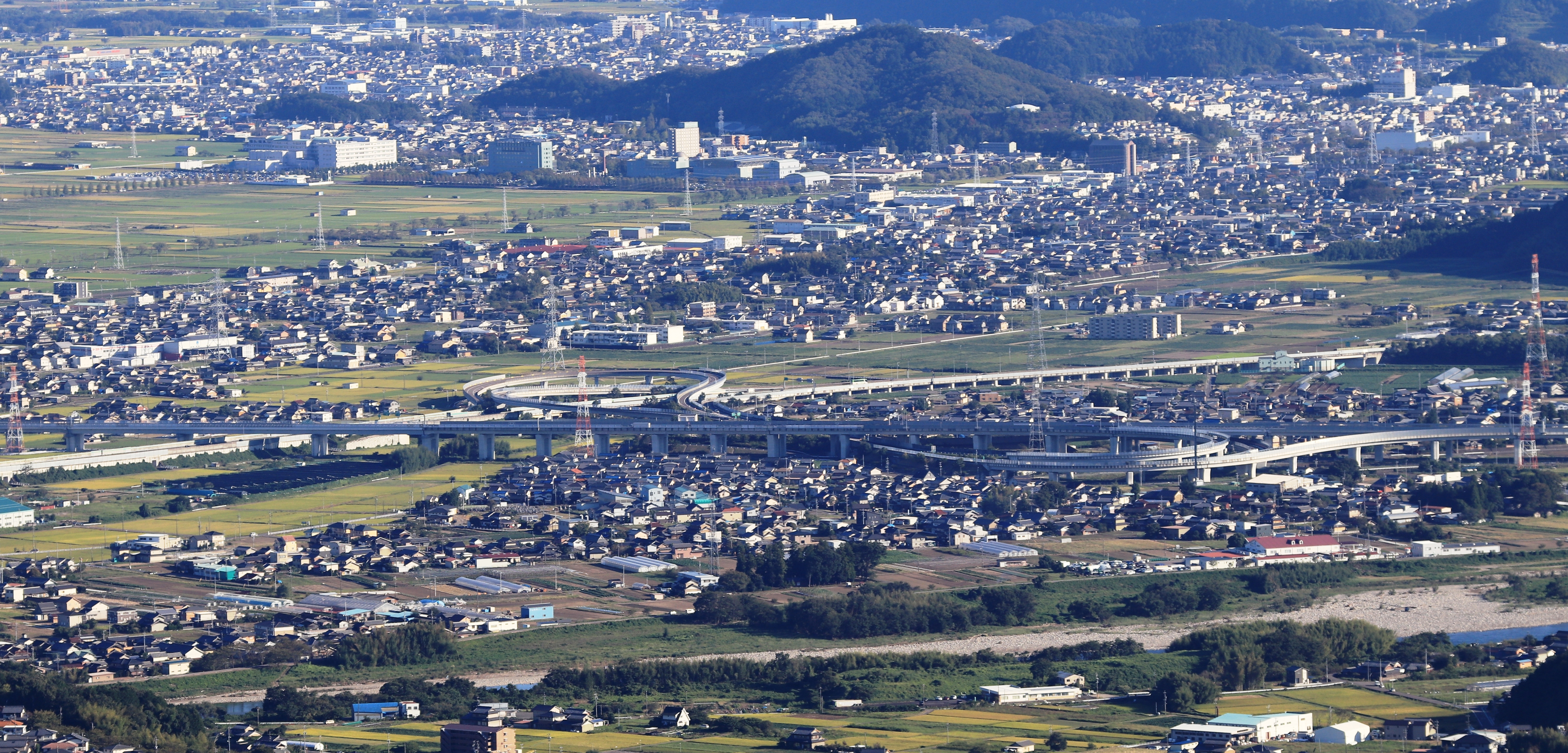 Mino-Seki Junction seen from Mount Tenno in Mino, and Seki, Gifu Prefecture, Japan.